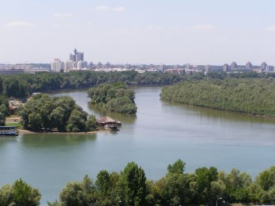 Rivers Danube and Sava meet in Belgrade (Serbia).